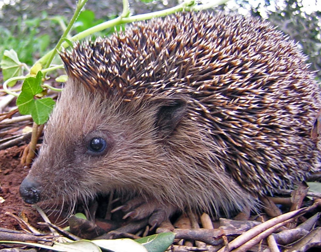 A young Hedgehog (Erinaceus europaeus).